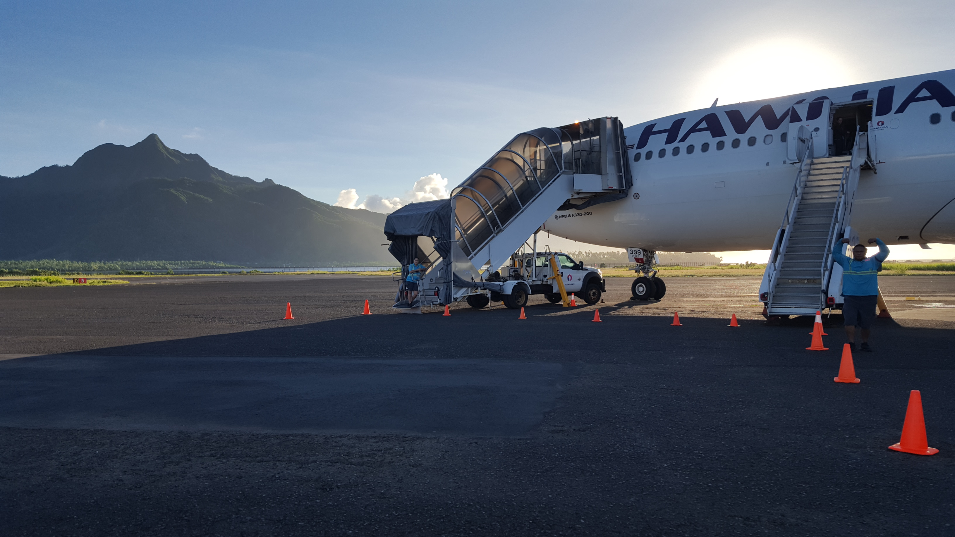 Picture of a Hawaiian Airlines flight taken from the tarmac of the Pago Pago Airport in American Samoa